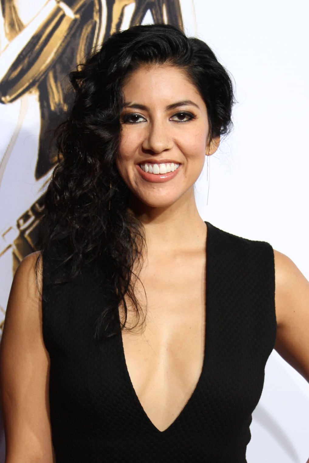 Actor Stephanie Beatriz at the 2014 Alma Awards